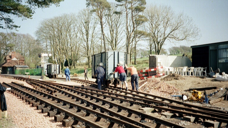 Hand shunting across newly laid track at Woody Bay, Lynton & Barnstaple Railway, Spring 2003 Photograph taken by: Martyn de Young